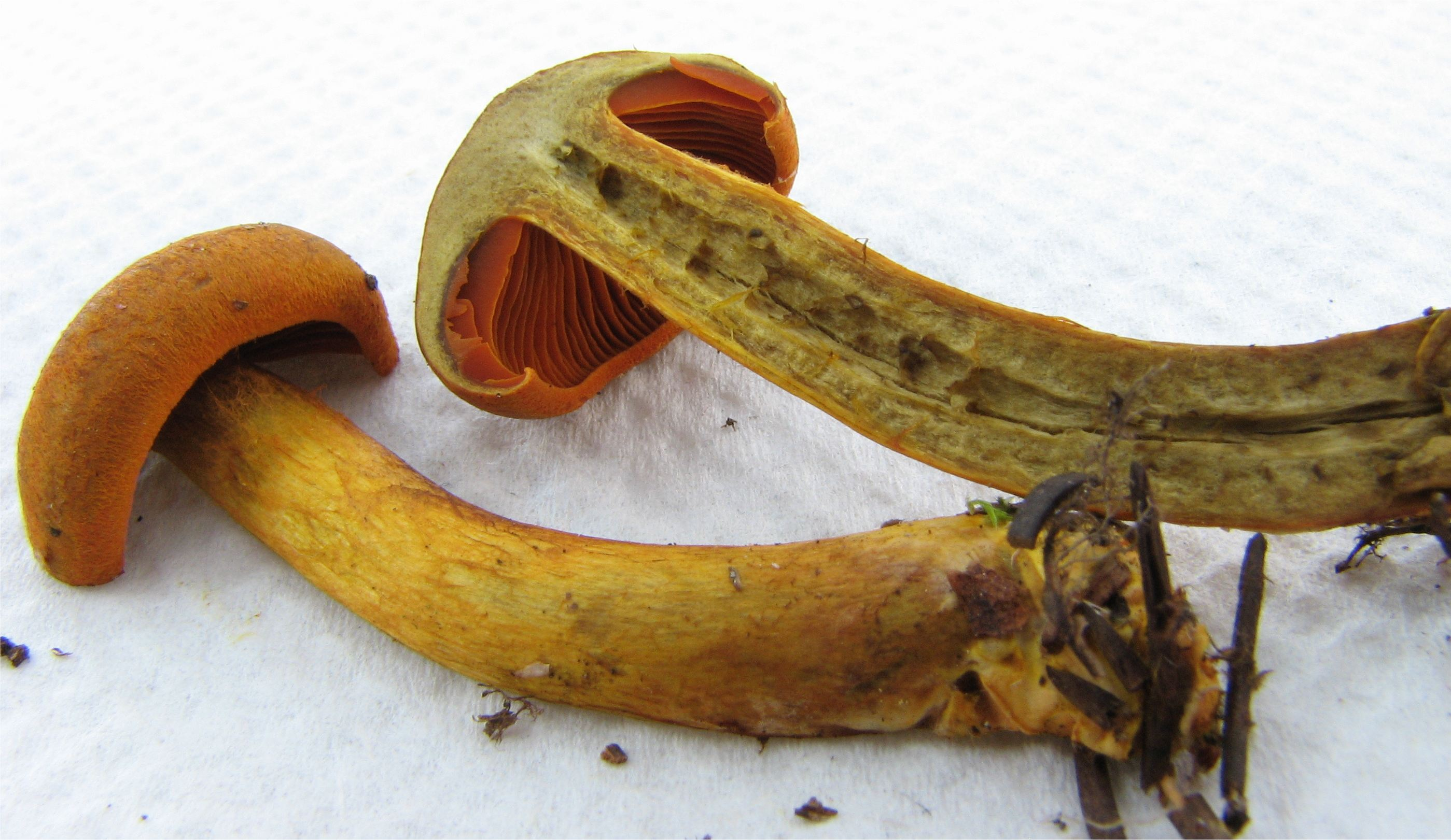 Cortinarius malicorius Fr. Image location: Hörnefors, Västerbotten, Sweden Recognized by sight For more information about this, see the observation page at Mushroom Observer.